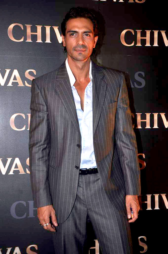 Arjun Rampal at Arjun and Rohit Bal's bash for Chivas in 2012.